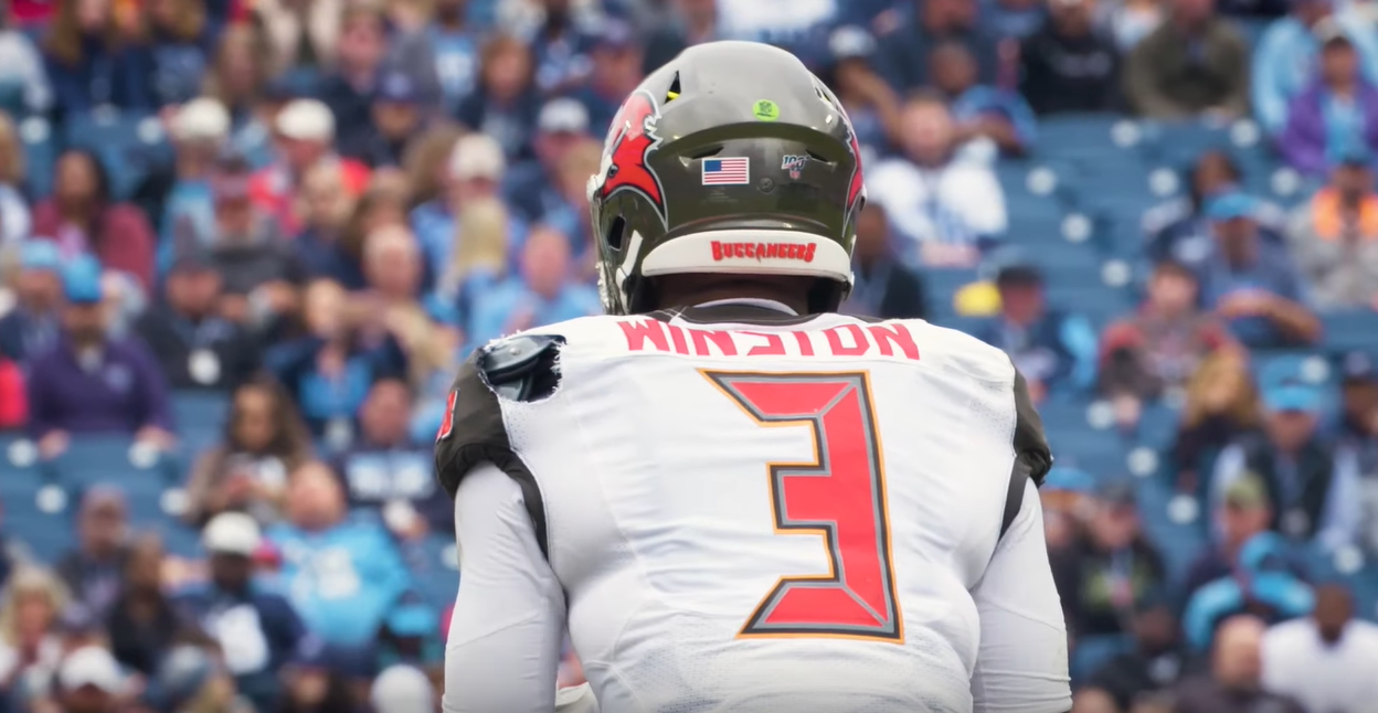 Jameis Winston 2019. Image from video Titans Mic'd Up vs. Bucs (Week 8) | Sounds of the Gamee, ~ 03:36.